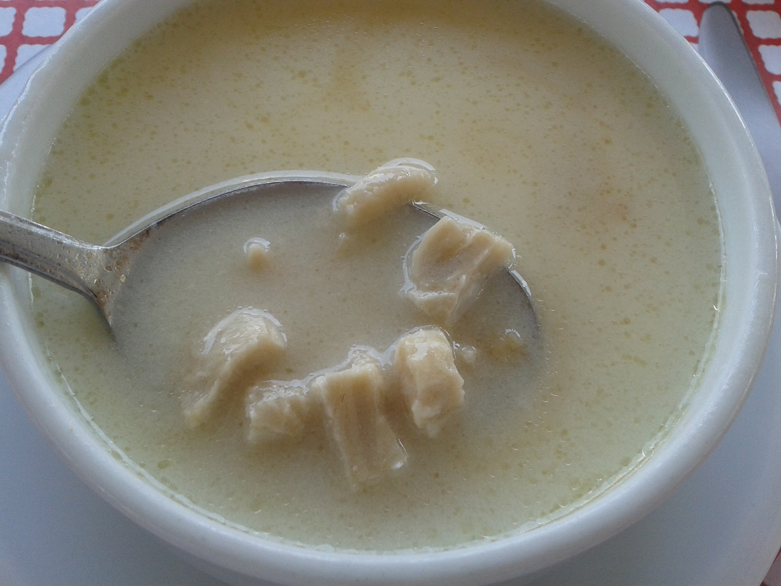 Details of tripe soup (ishkembe) in Turkey.